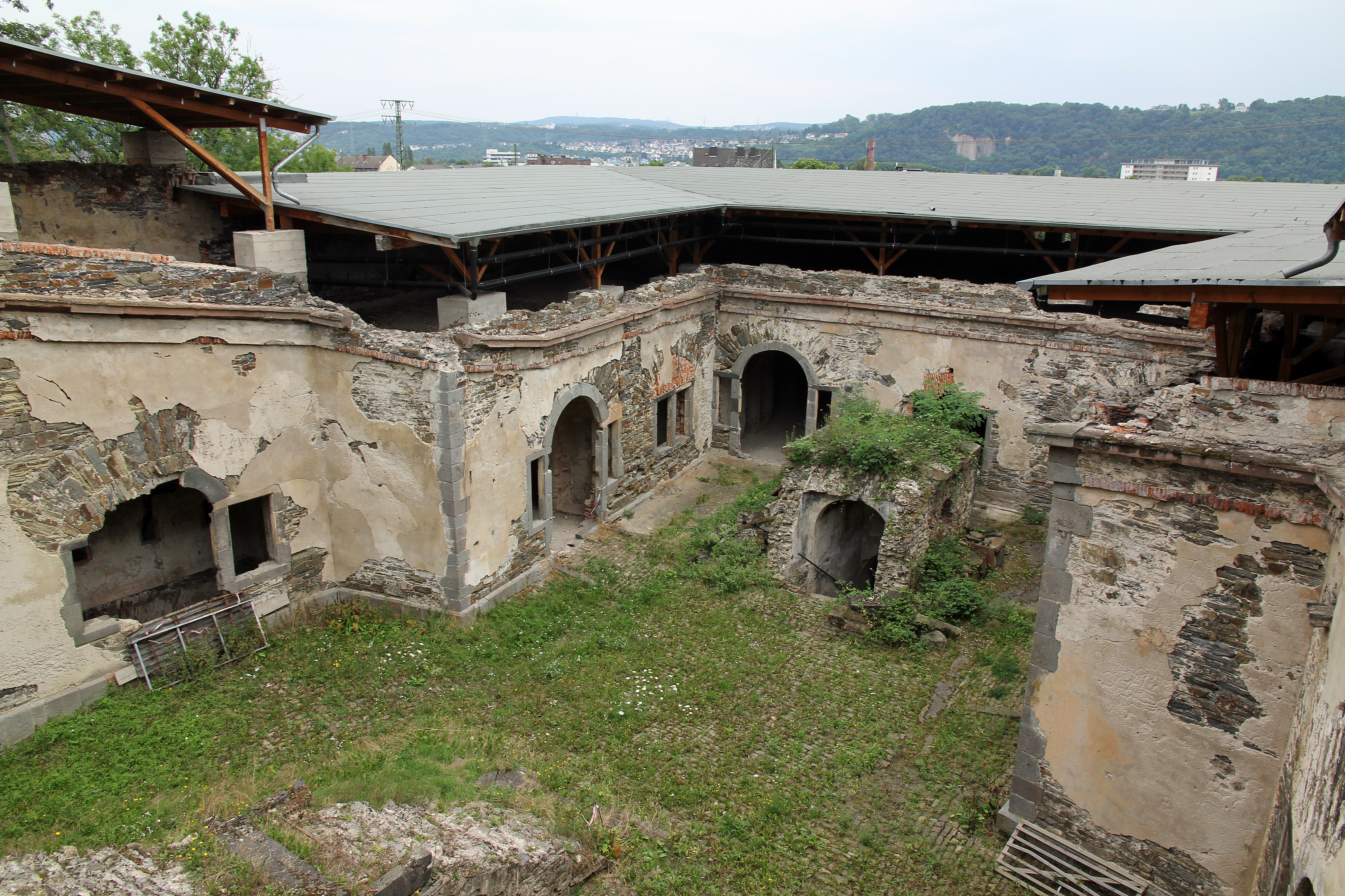 Feste Kaiser Franz in Koblenz